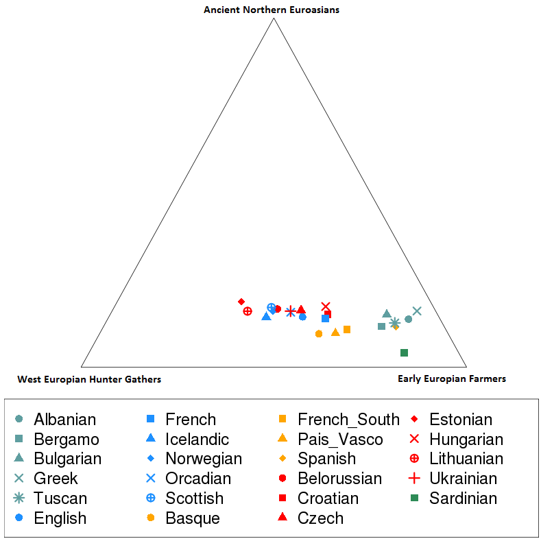 Modeling of West Eurasian population history, plotting the proportions of ancestry from each of three inferred ancestral populations; Early European Farmers, Ancient Northern Euroasians and West European Hunter Gathers as inferred from the model-based analysis.